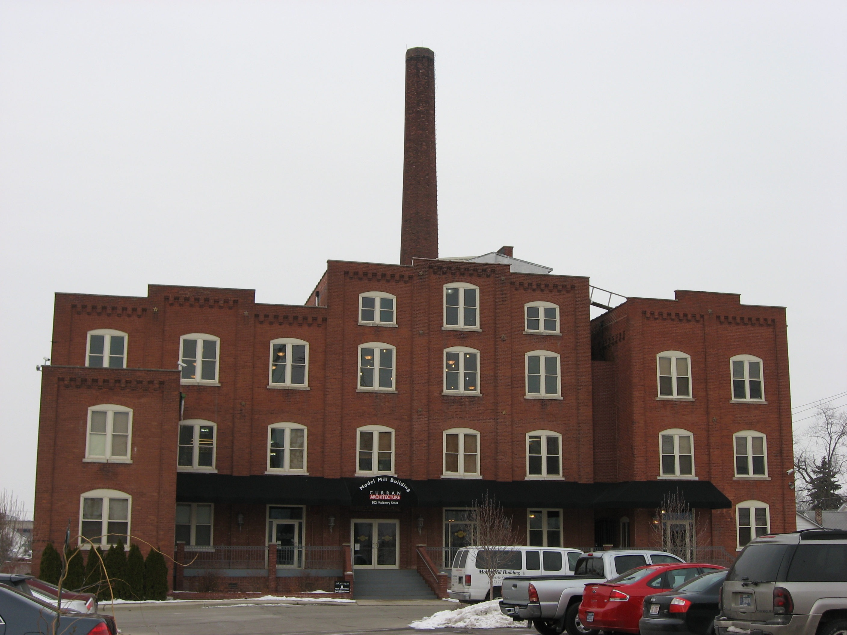 Front of the Noblesville Milling Company Mill, located at 802 W. Mulberry Street in Noblesville, Indiana, United States. Built in 1892, it is listed on the National Register of Historic Places.